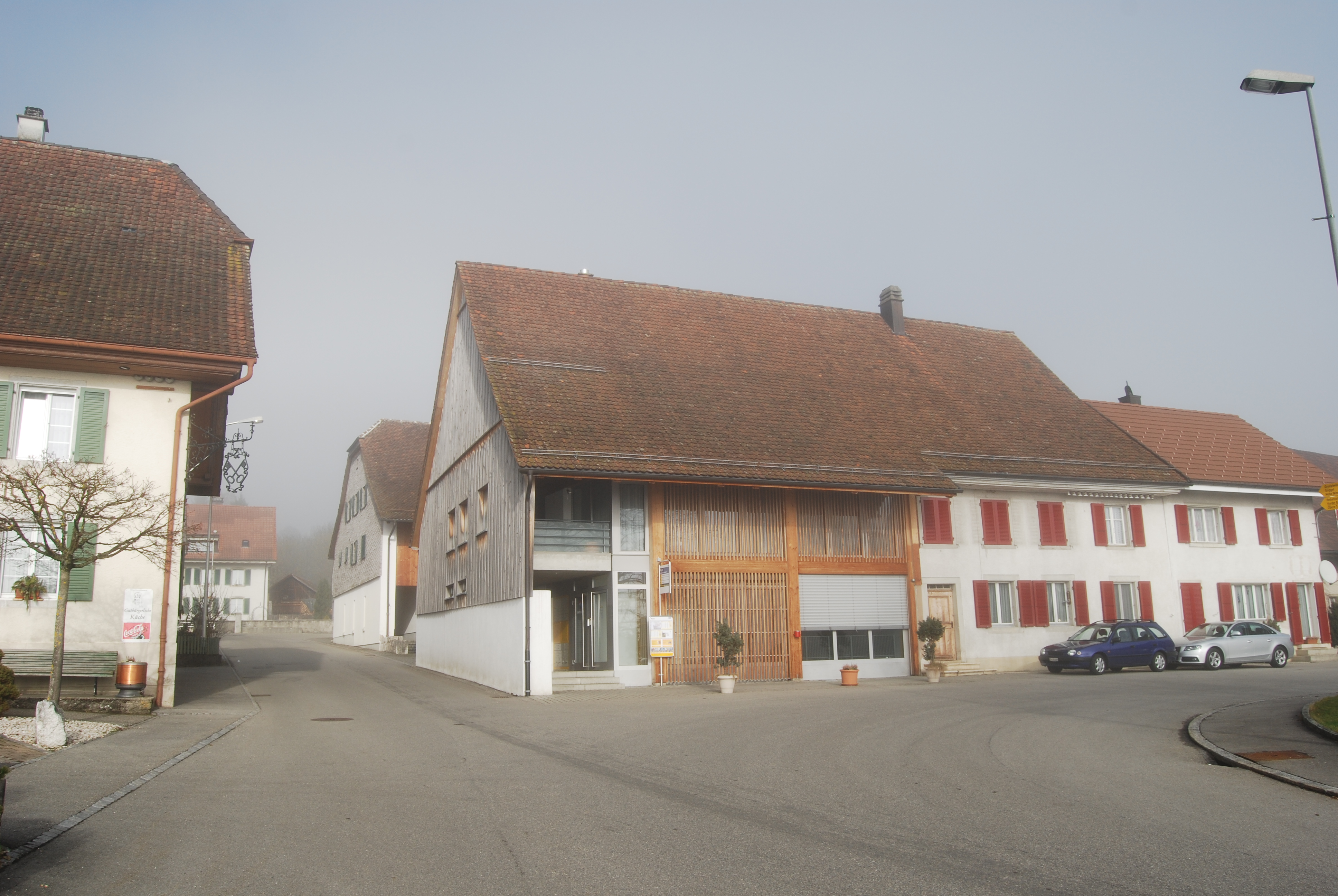 Aedermannsdorf, canton of Solothurn, SwitzerlandEsperanto: Aedermannsdorf, Kantono Soloturno, Svislando